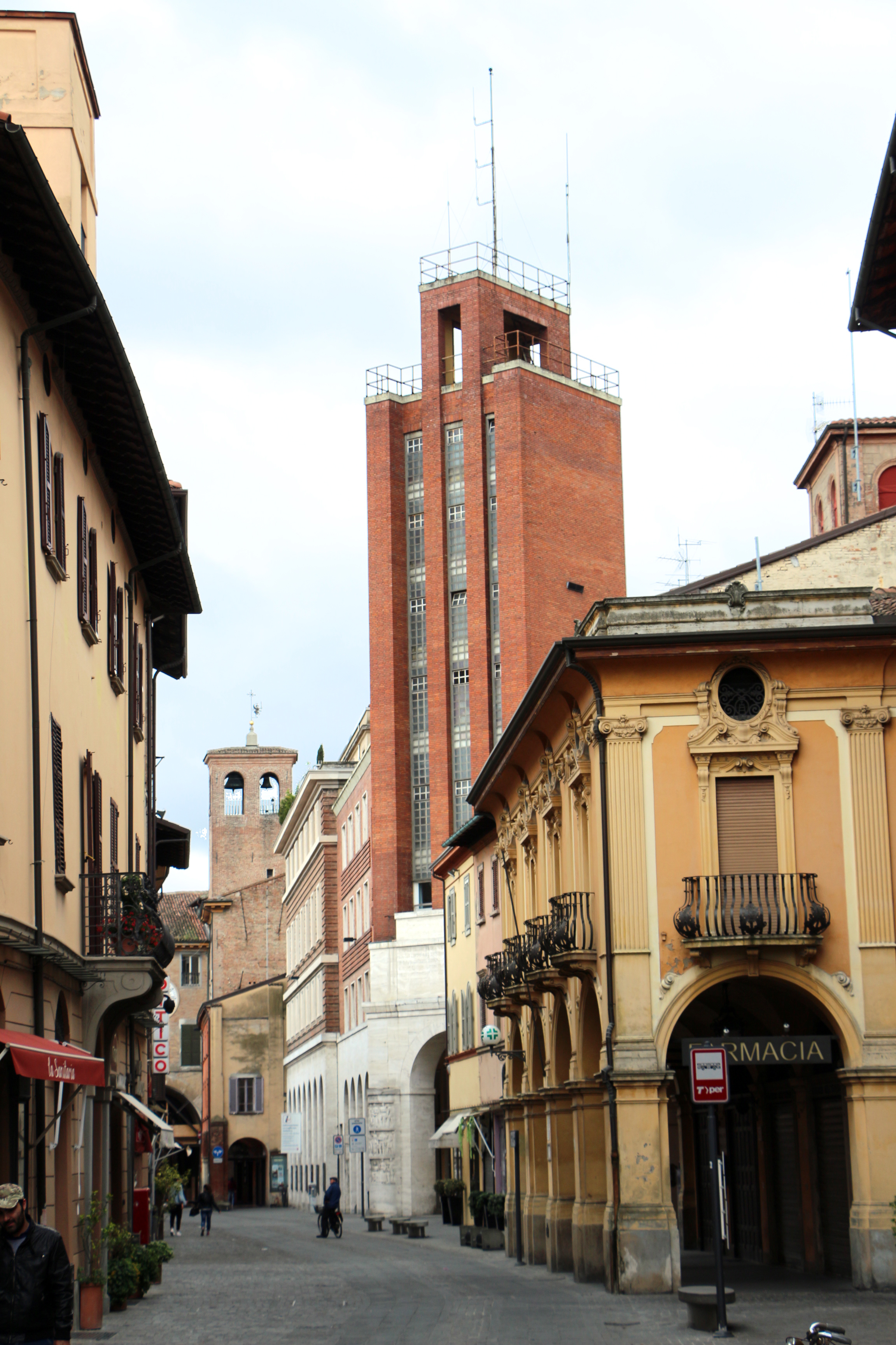 Casa del Fascio (Imola)